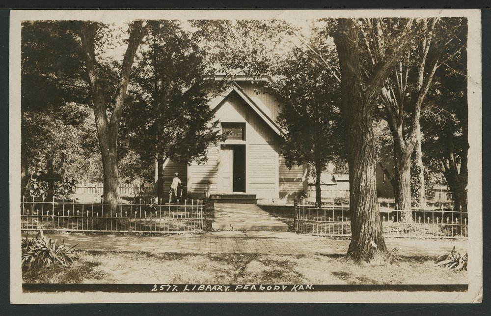 Old Peabody Library, 106 East Division Avenue Peabody